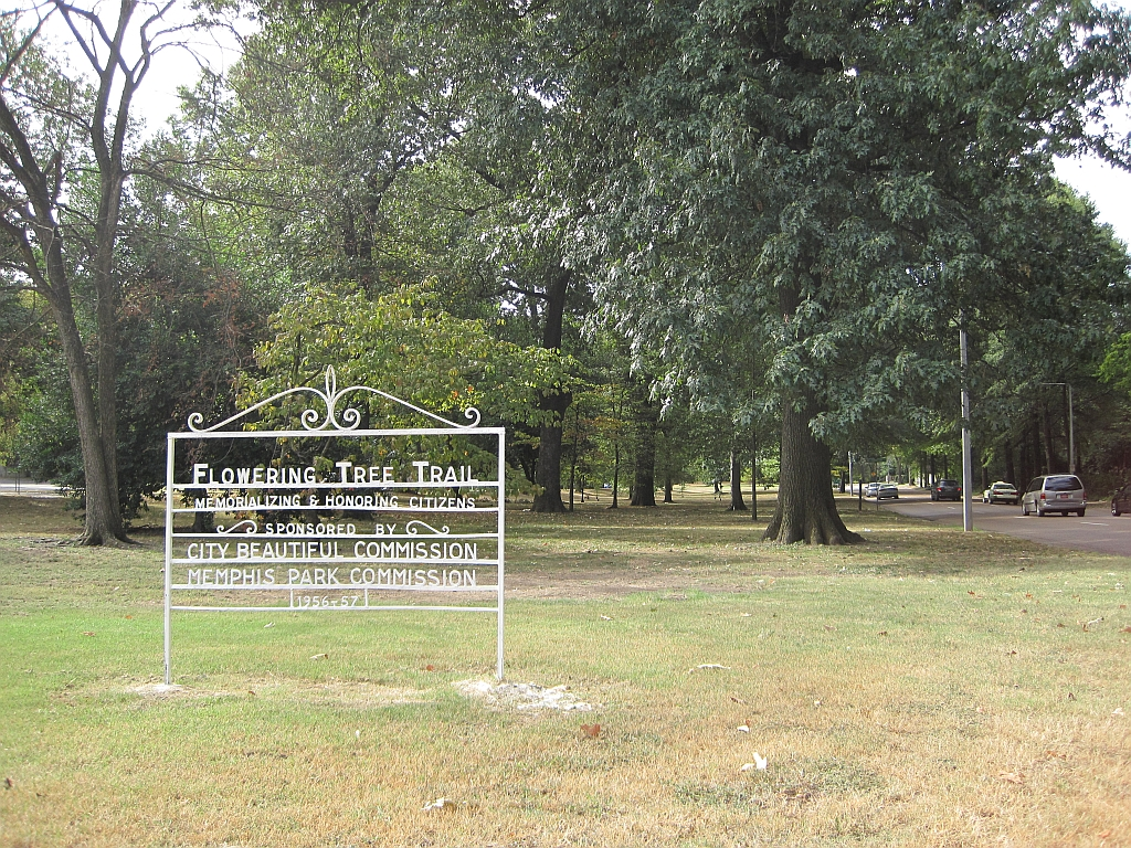 Flowering Tree Trail (established 1956-57) along the median of East Parkway in Memphis, Tennessee